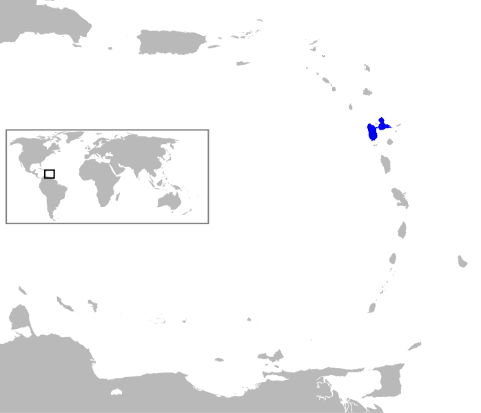 Guadeloupe woodpecker (Melanerpes herminieri) distribution map